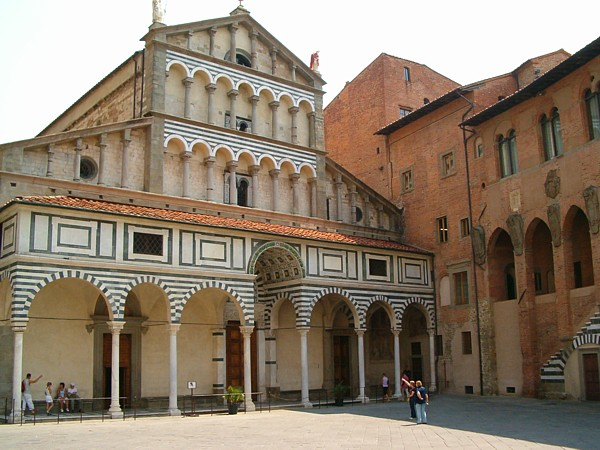 Pistoia, Duomo Picture taken by user:Idéfix, july 2003